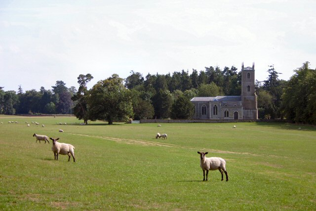 Church of St Genevieve in Euston, Suffolk, England. A Grade I listed church.